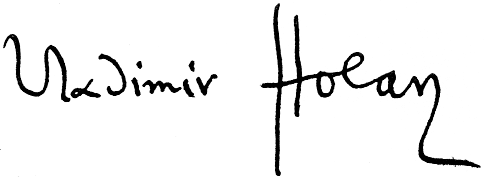 Signature of Czech poet and translator Vladimír Holan